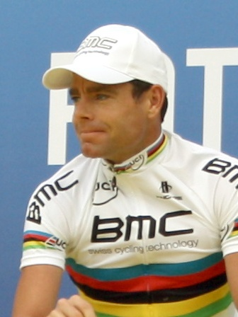 Cadel Evans at the team presentation of the 2010 Tour de France in Rotterdam